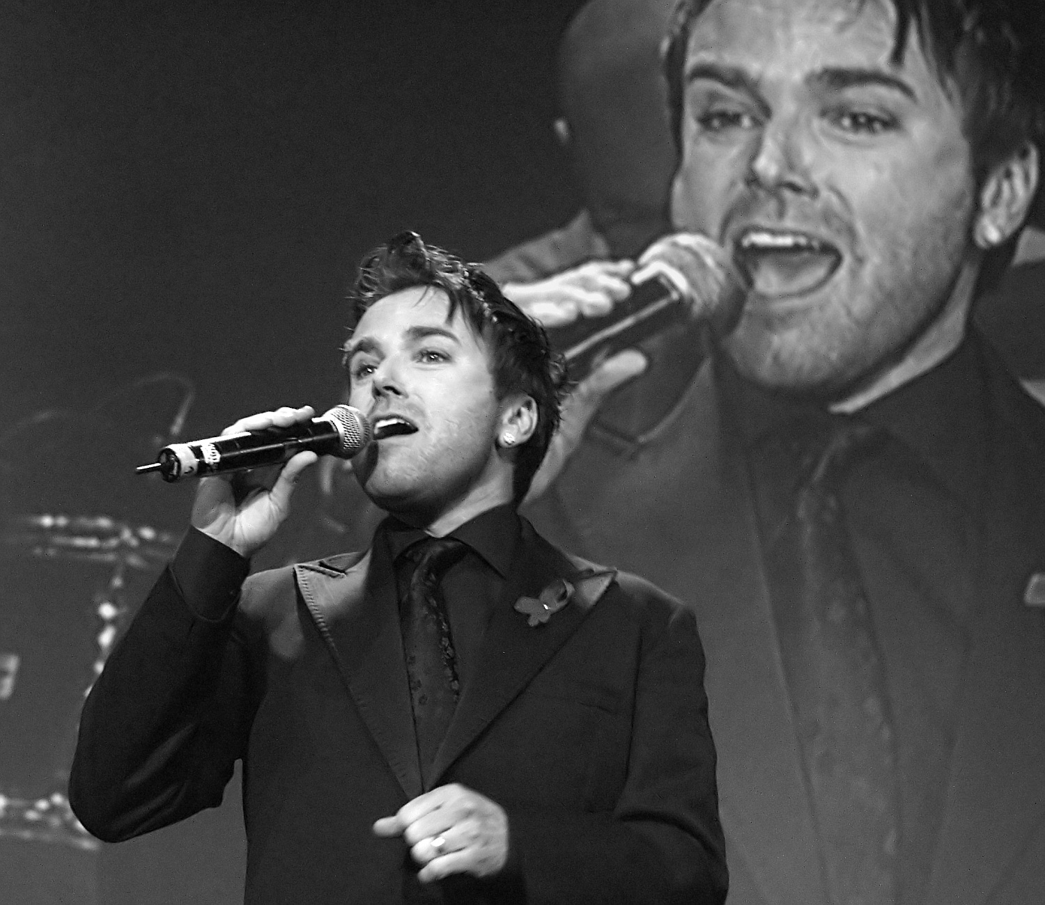 Uwe Kröger performing on the charity concert "Cover me" at E-Werk, Cologne, Germany.